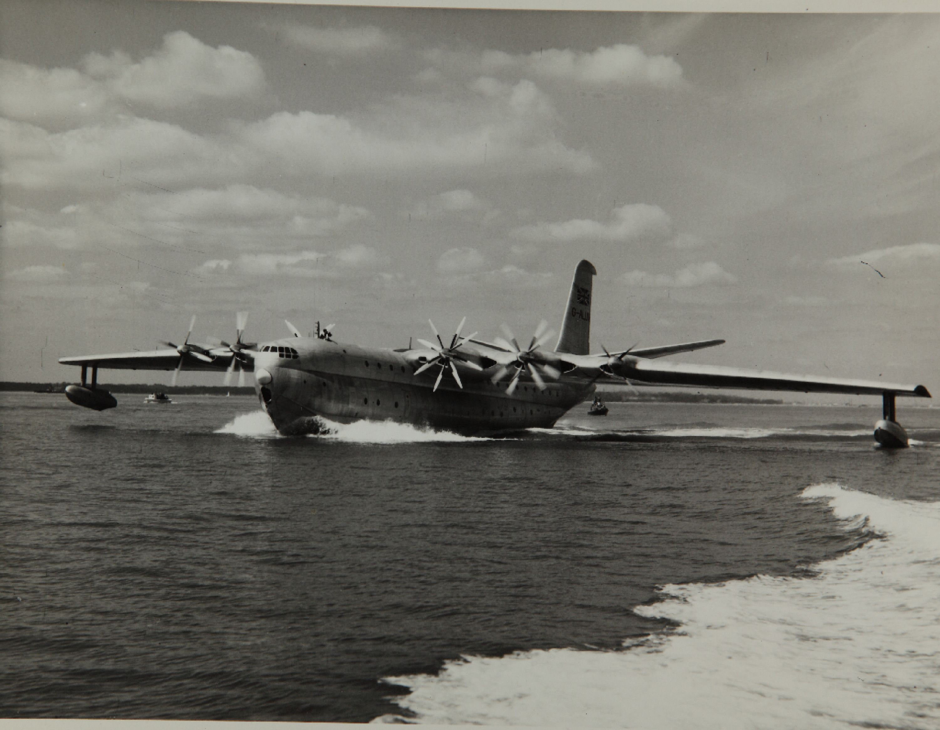 Catalog #: 01_00087159 Manufacturer: Saunders-Roe Designation: SR.45 Official Nickname: Princess Notes: UK